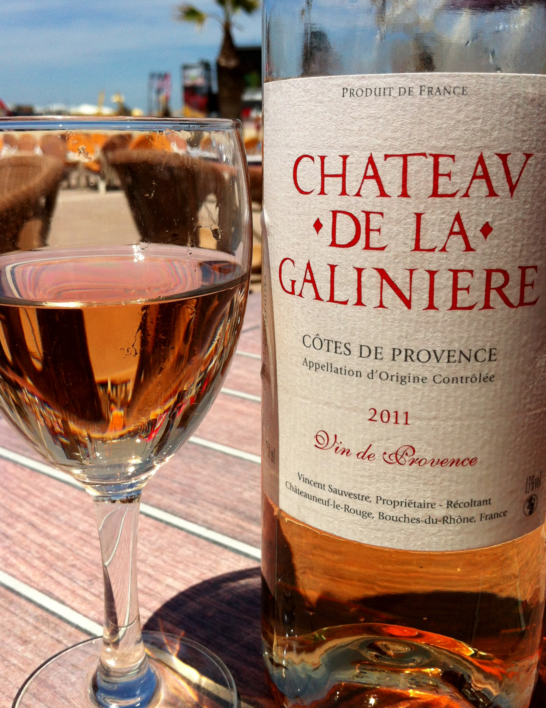 Rose wine from Provence